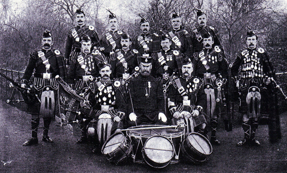 Burgh of Govan Police Pipe Band. What is now the Greater Glasgow Police Scotland Pipe Band was known as the Burgh of Govan Police Pipe Band until 1912, and this iteration of the band is the one pictured.